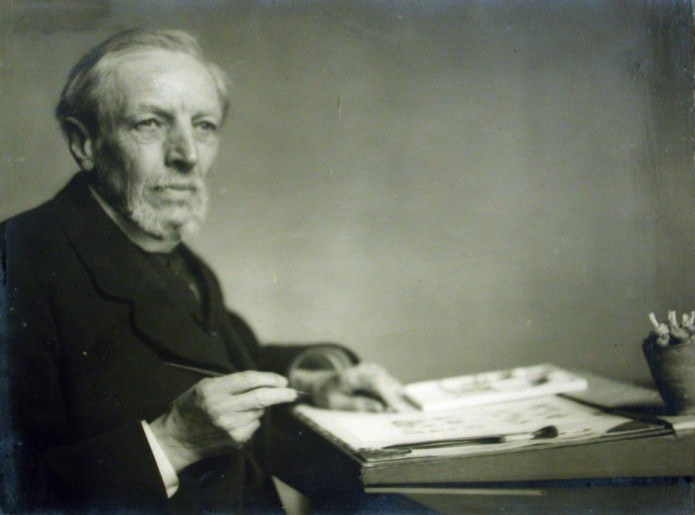 Nicholas Edward Brown